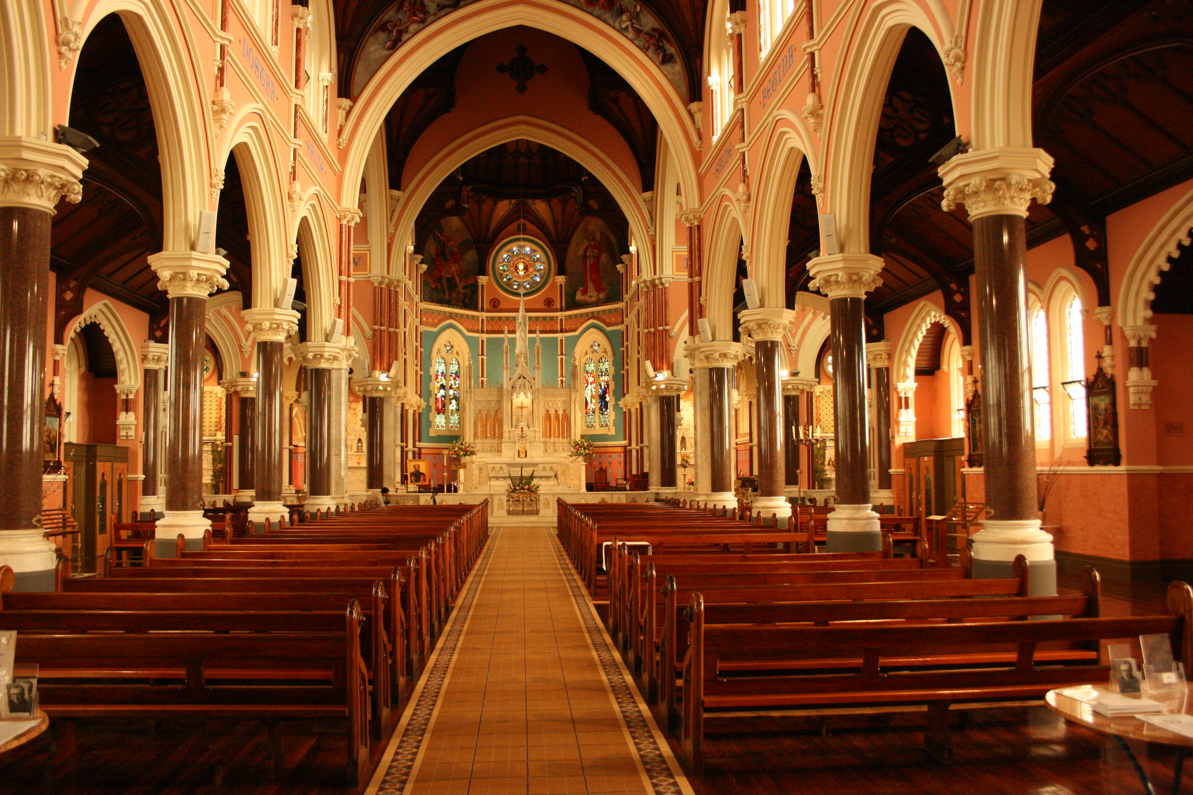 High Altar at Star of the Sea